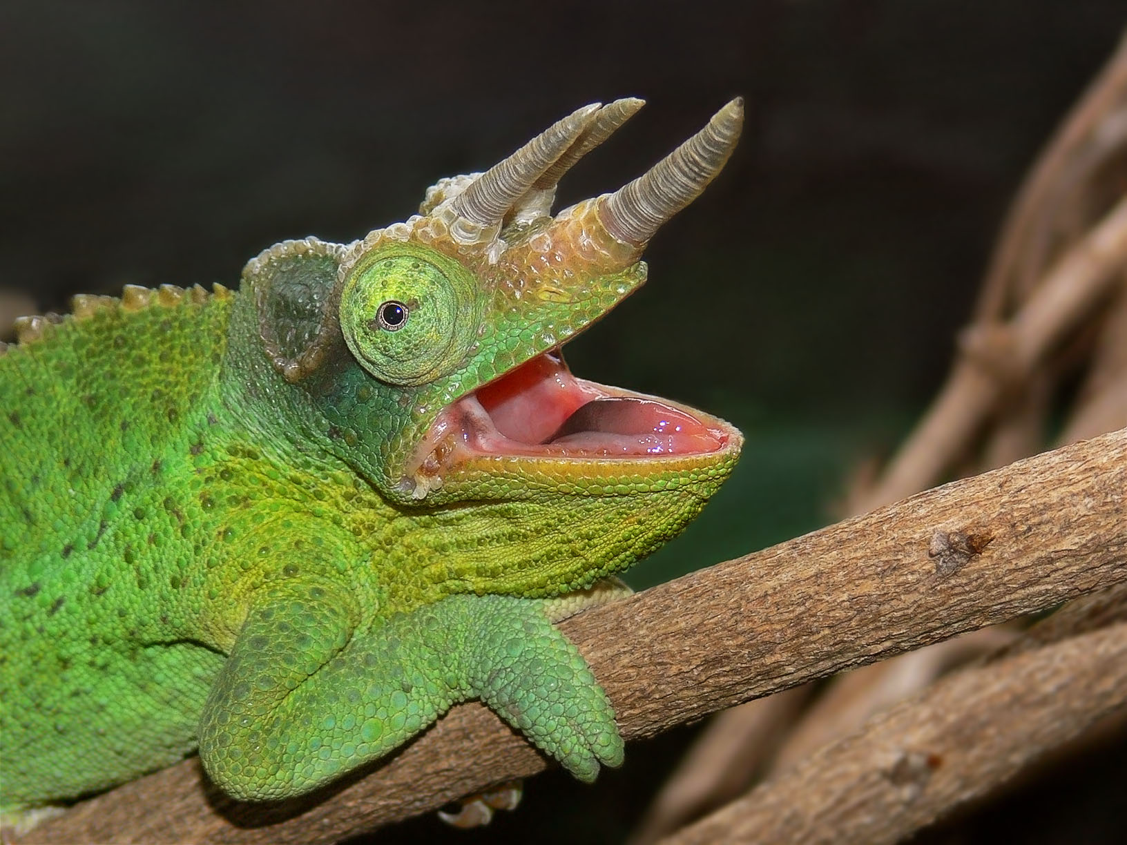 A Jackson's chameleon, Chamaeleo jacksonii, Melbourne zoo.